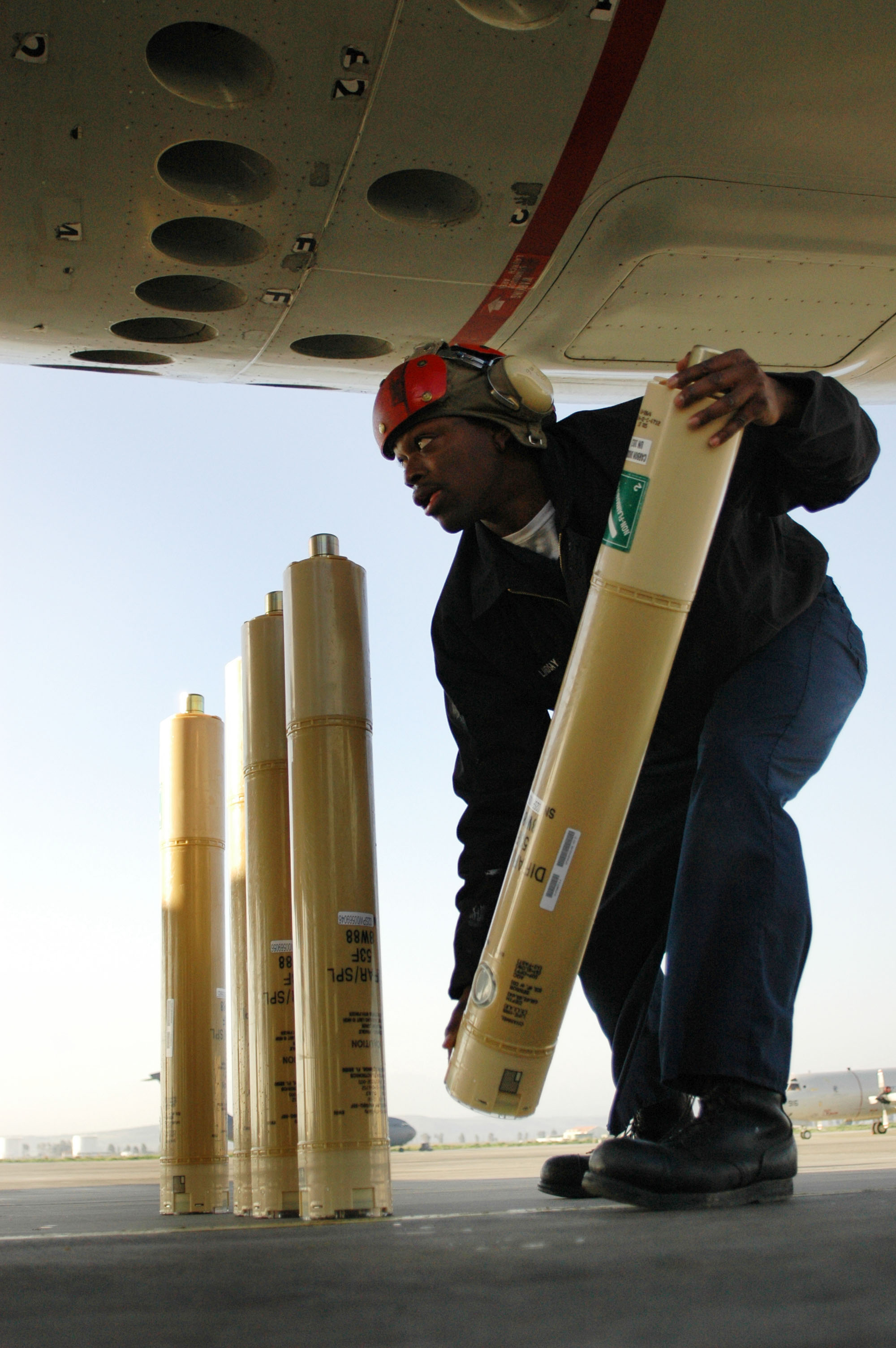 060217-N-8726C-001 Sigonella, Sicily (Feb. 17, 2006) – Aviation Ordnanceman Airman Charles Lindsay, assigned to the “Tridents” of Patrol Squadron Two Six (VP-26), loads sonar buoys into a P-3 Orion. The Trident combat aircrew flying the P-3 launched sonar buoys during anti-submarine warfare operations in support of Operation Noble Manta. Operation Noble Manta is the largest anti-submarine warfare exercise (ASW) in the world. The eleven-day North Atlantic Treaty Organization (NATO) exercise is designed to improve joint ASW operations between NATO forces.